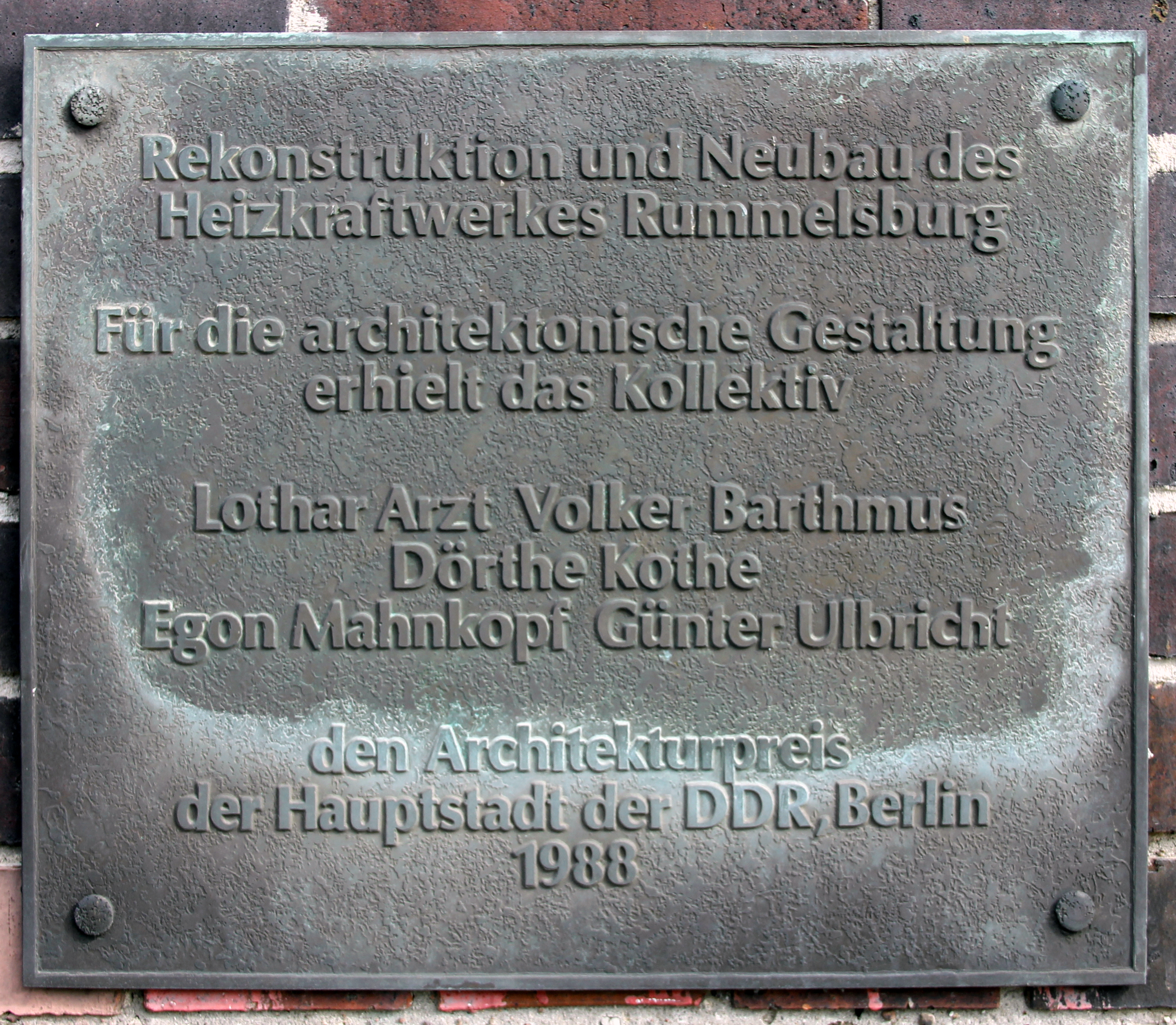 Memorial plaque, Heizkraftwerk Klingenberg, Köpenicker Chaussee 42, Berlin-Rummelsburg, Deutschland